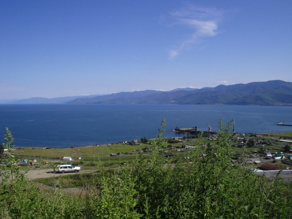 Lake Baikal, Russia